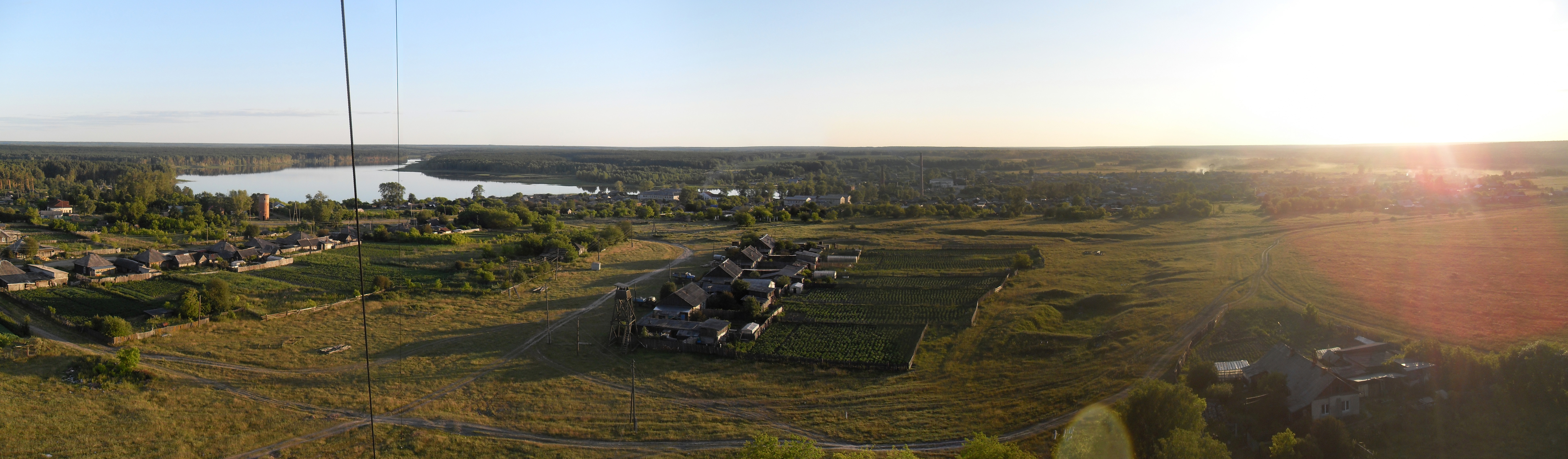 Panorama view of Zavodouspenskoe from the tower.